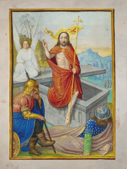 Imhof prayer book f121v, The resurection of Jesus Christ